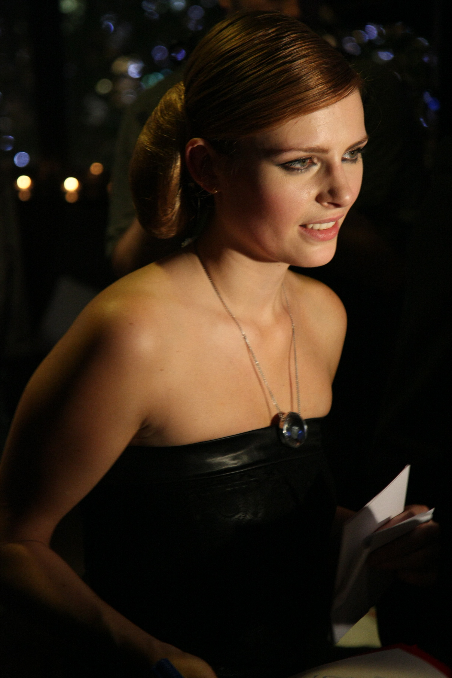 Singer Élodie Frégé @ Virgin Champs-Elysées, Paris, France.